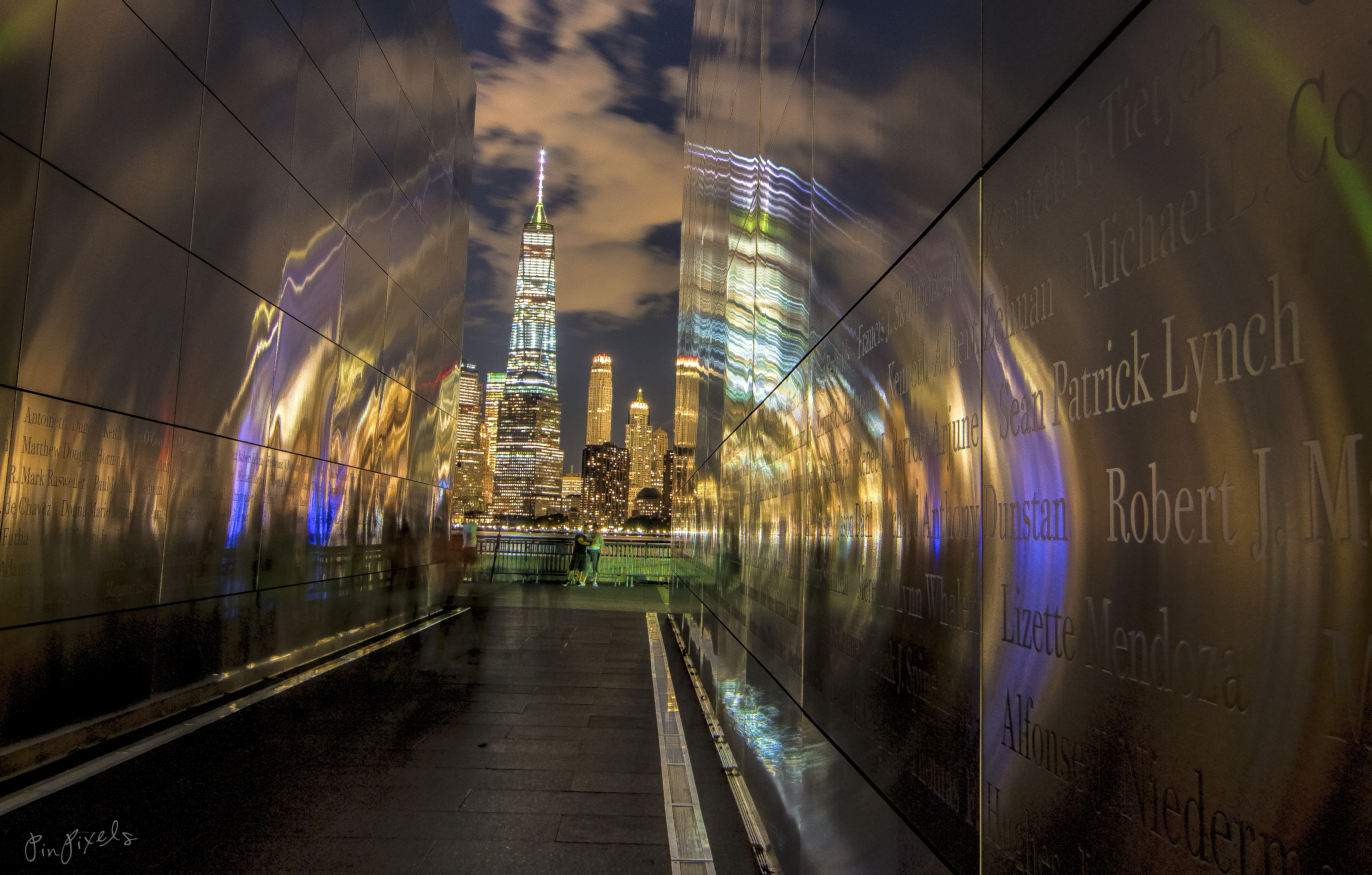 Night view of One World through the Empty Sky Memorial, NJ